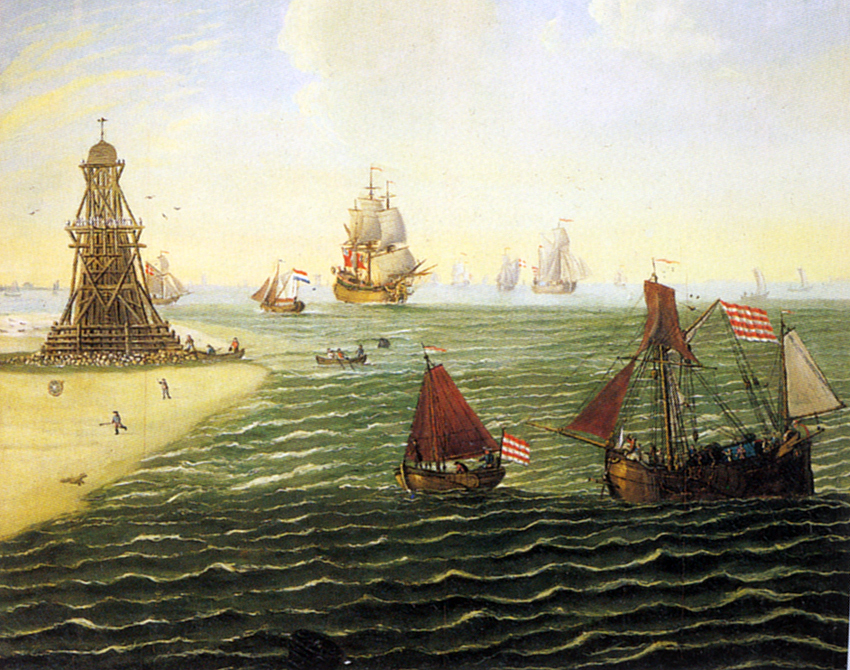 Oil painting at the Haus Schütting in Bremen, Germany, showing the daymark Bremer Bake on the sandbank Hohe Weg at the Weser estuary and two buoy tenders form the city of Bremen.